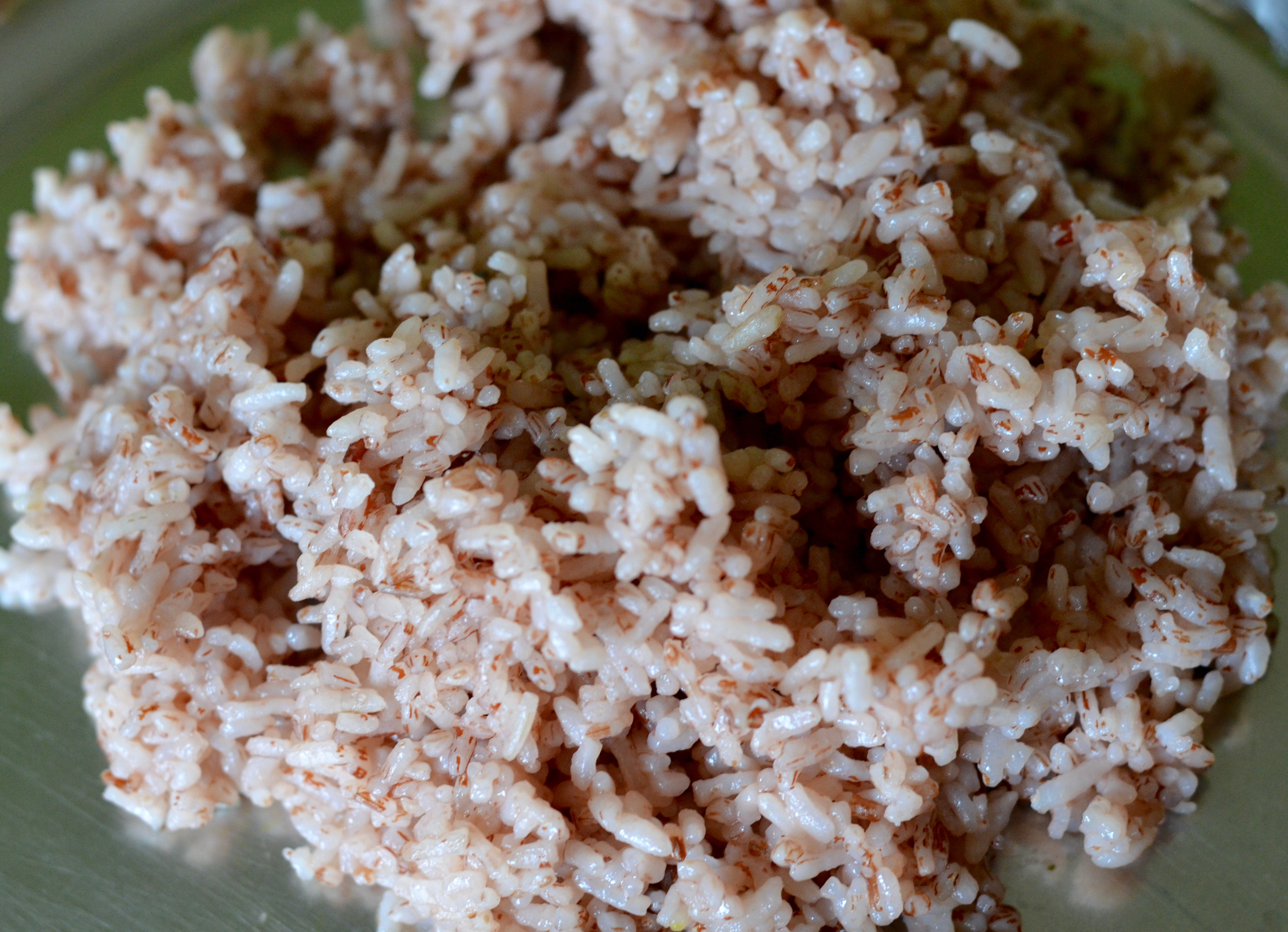 Cooked brown rice from Bhutan অসমীয়া: ভূটানৰ মটীয়া ৰঙৰ ভাত।